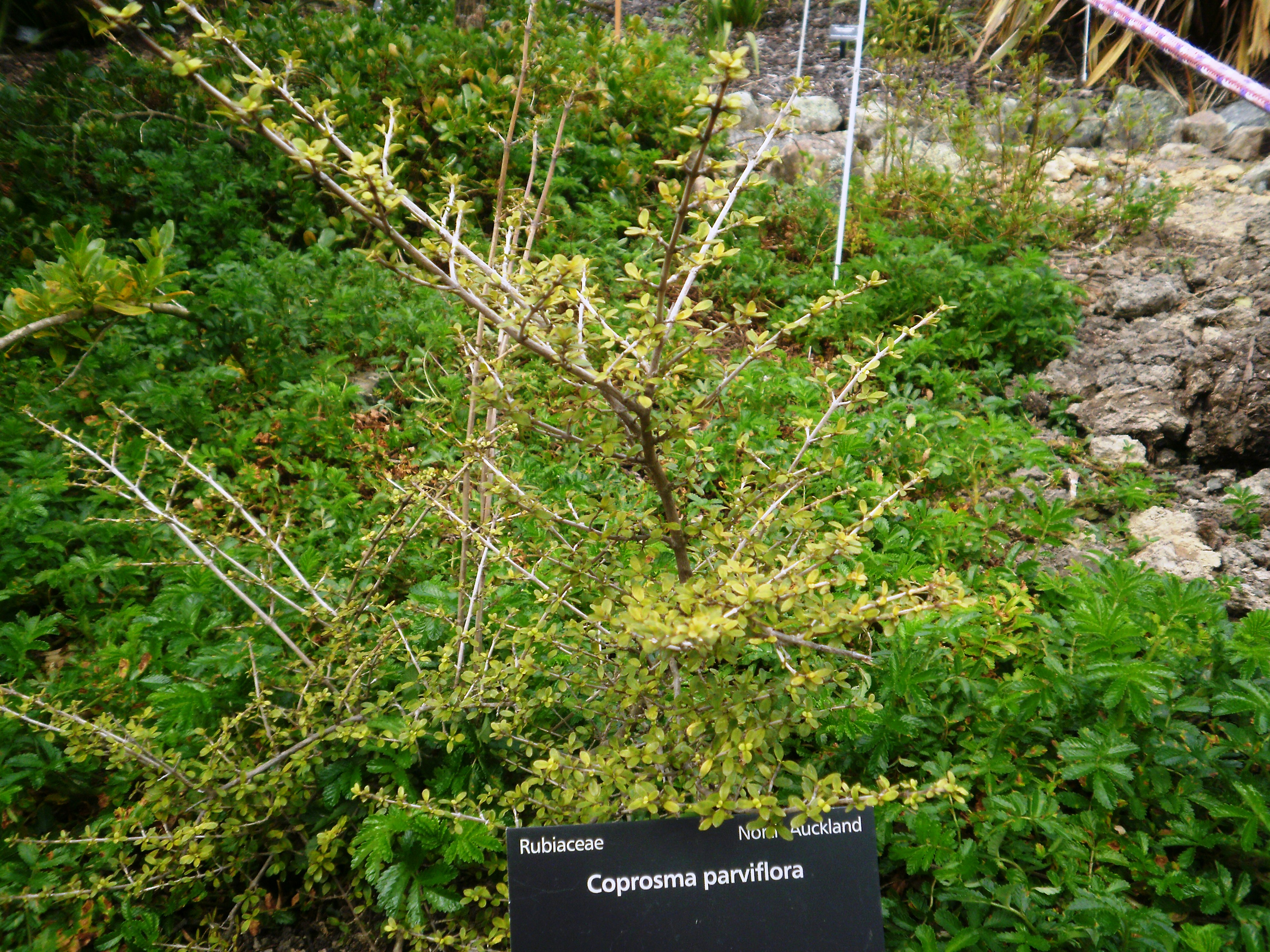 Coprosma parviflora, leafy coprosma, at Otari-Wilton's Bush, Wellington, New Zealand.